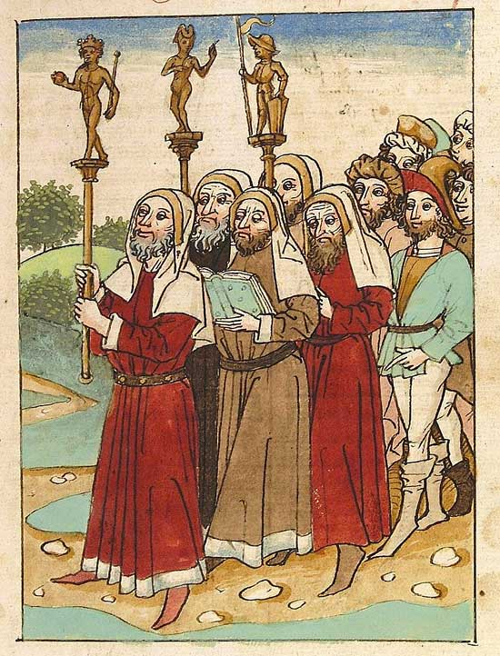 This coloured pen drawing comes from a southern German manuscript which is called the "Alemannisches Vitaspatrum" (c. 1477) being a collection of legendary folklore. The title is "Wie haiden tragn ire aptgötter umb das vellt und bitten umb regen und andre geprestenn" (How pagans use to carry their idols around praying for rain and other necessities).